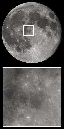 Location of Sinus Medii on the Moon